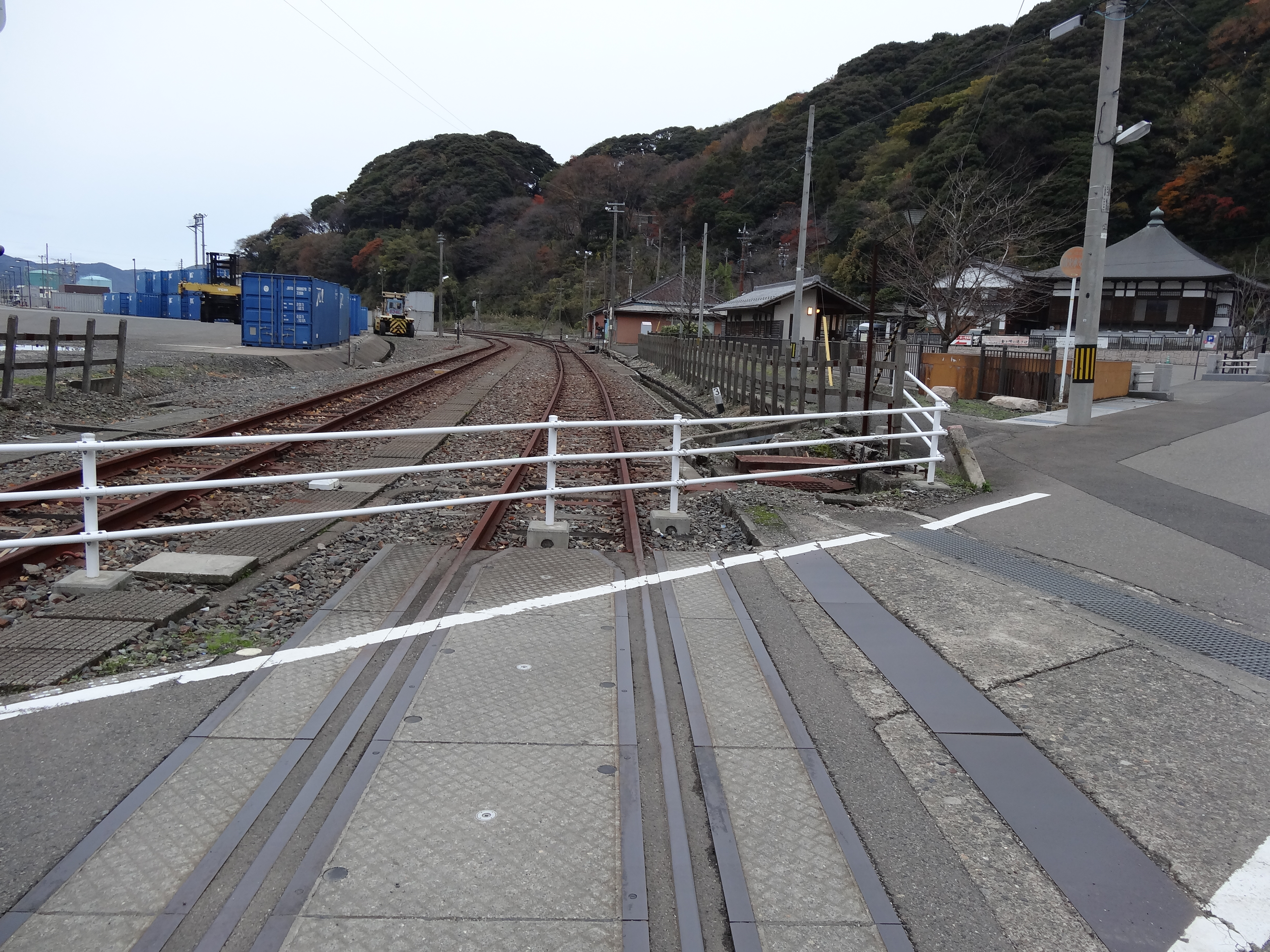 Barriers have been installed on the track at Tsurugaminato Station